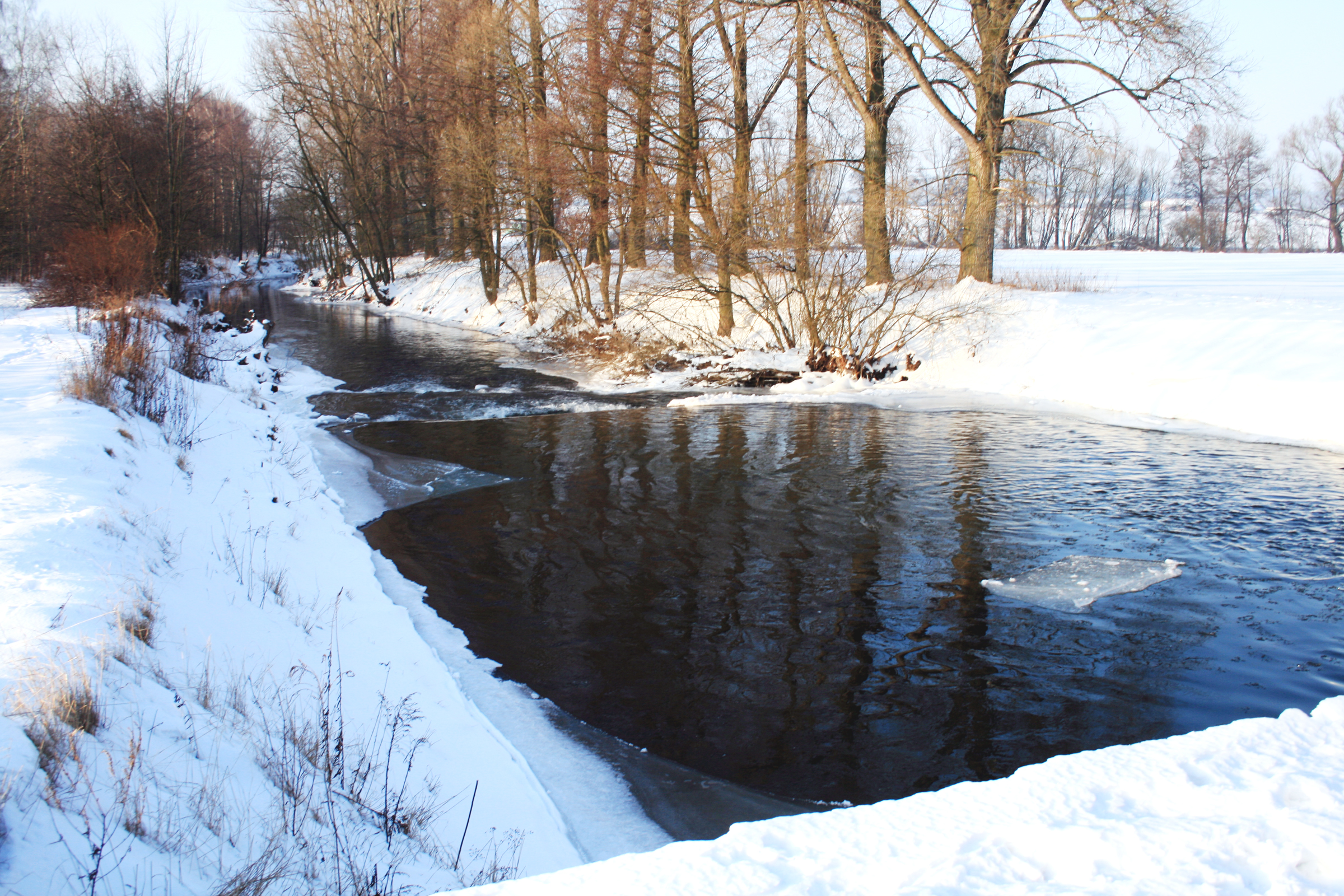 River Úpa in winter near of Jaroměř, east Bohemia, Czech republic